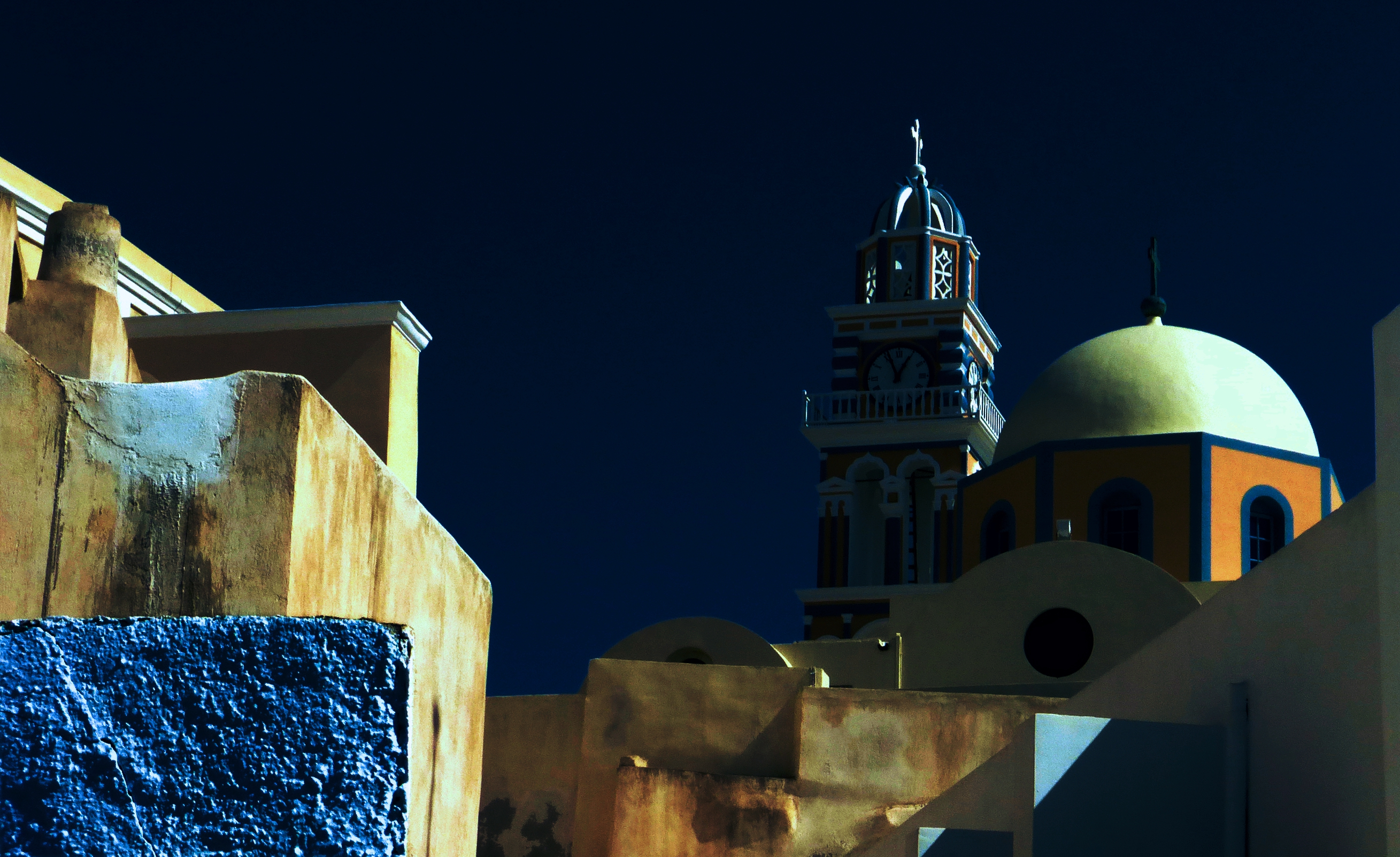 A conventional scenic view, with no people, signs, or other identifiable details.